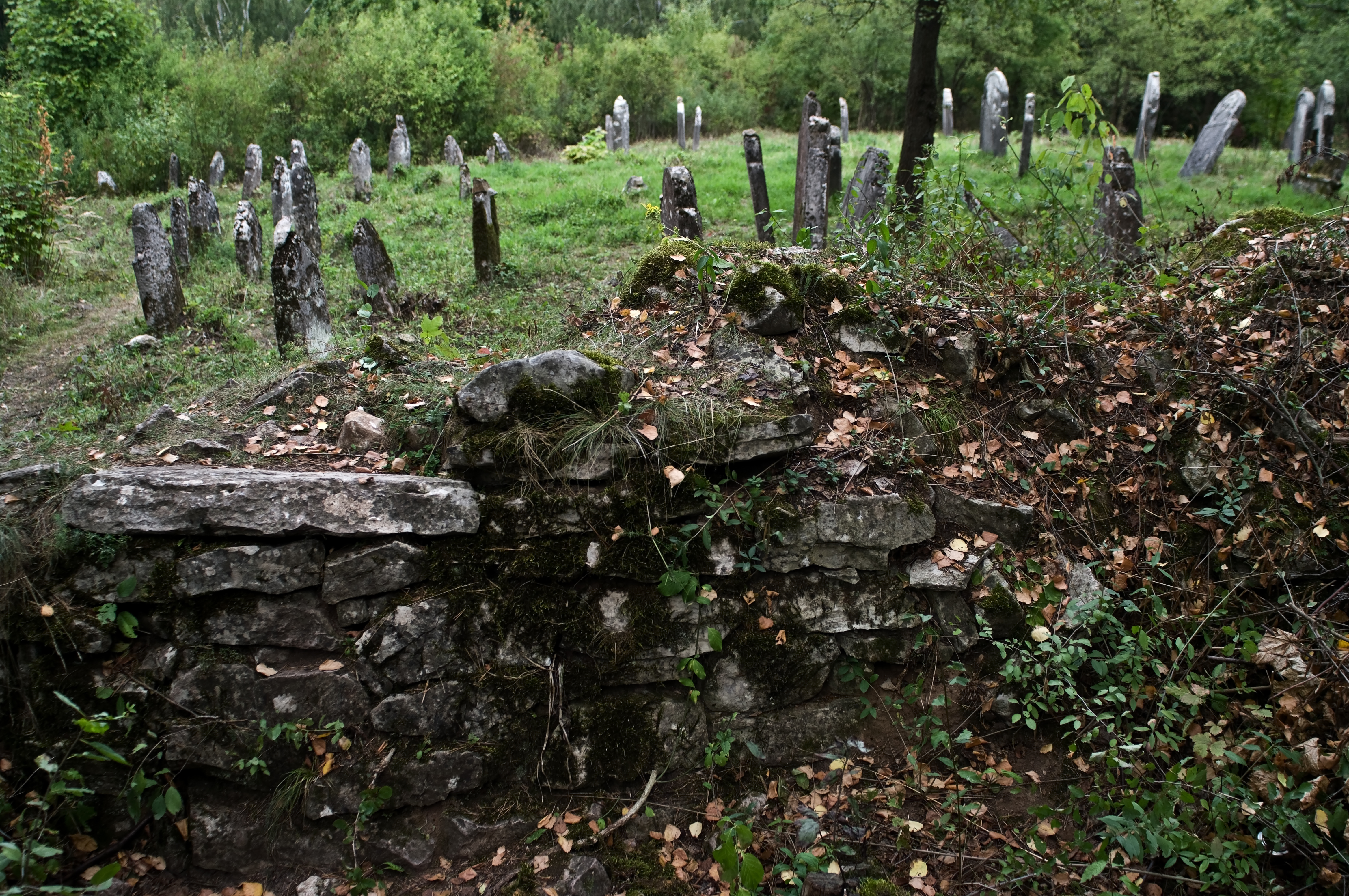 Jewish cemetery in Chęciny